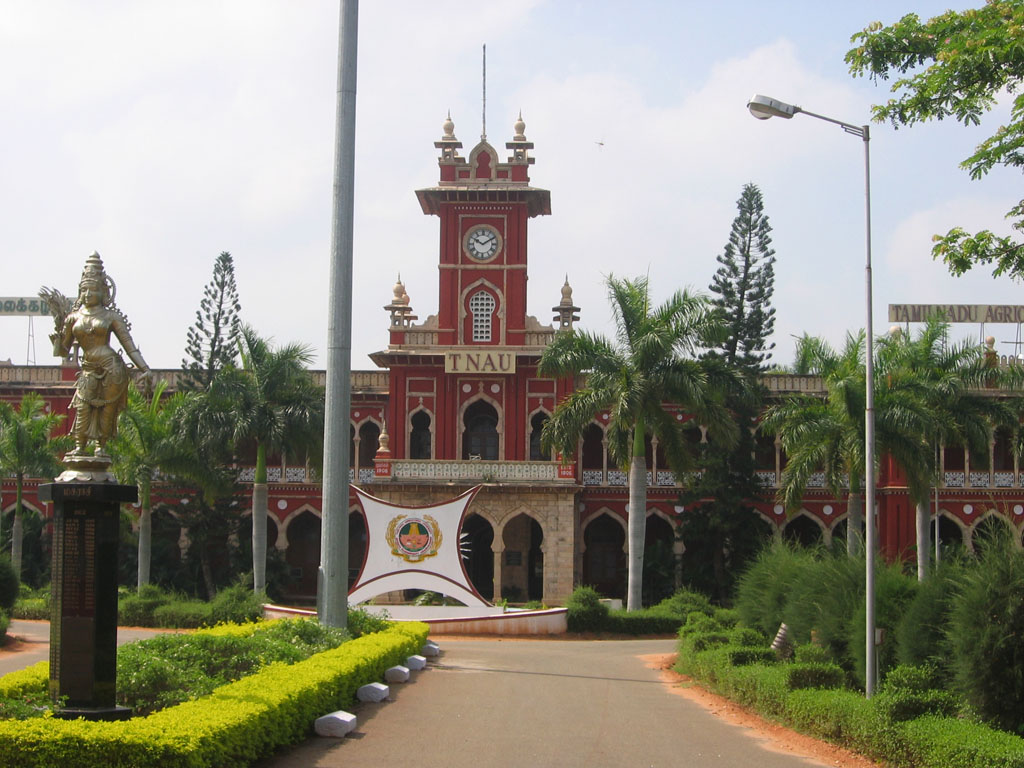 TNAU 1